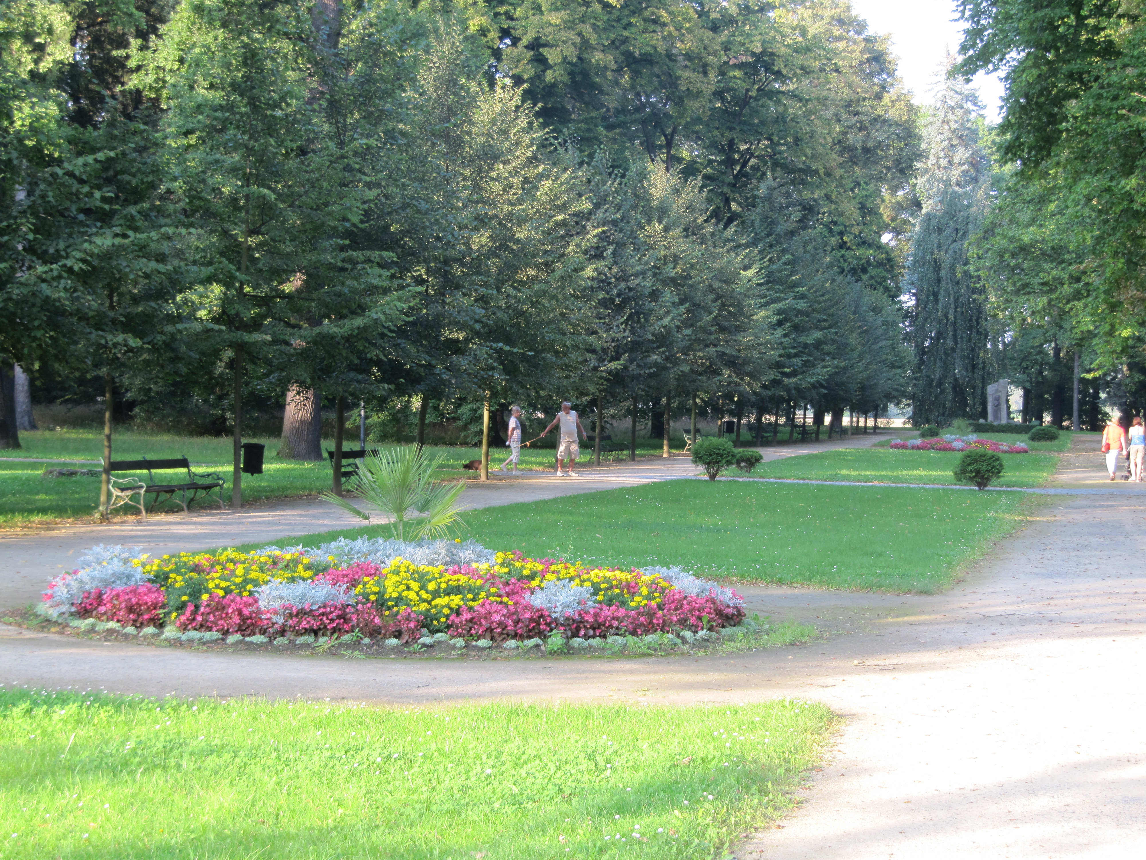 Přerov , Czech Republic. Park Michalov. This photograph was taken within the scope of the third year of the 'Czech Municipalities Photographs' grant.